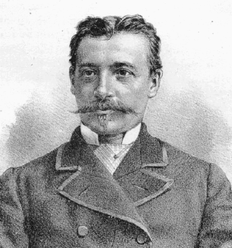 Portrait of Belgian astronomer Louis Niesten. Photograph of portrait created 1883.